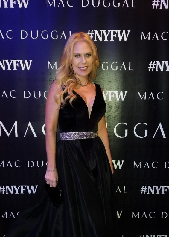 Jacque Georgia attending the premiere by VIP invitation of International Dress Designer, Mac Duggal, at New York Fashion Week